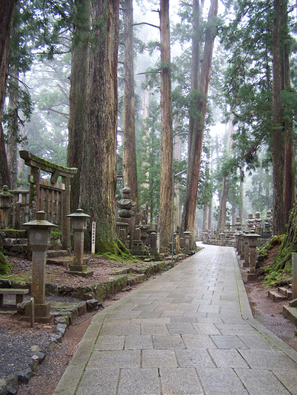 Okunoin cemetery in Mt. Koya on a misty day